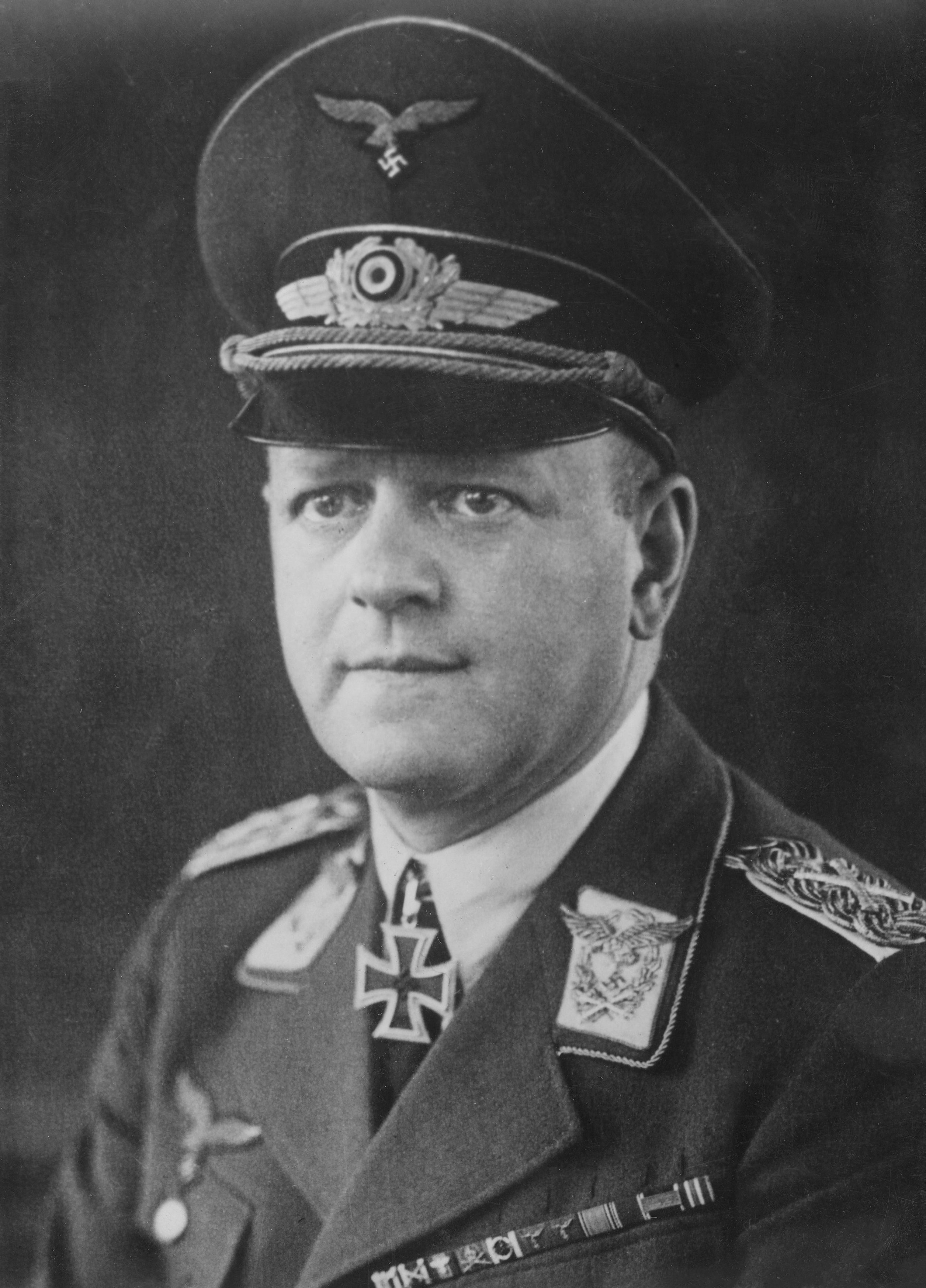 Erhard Milch, German marshal, portrait photography.